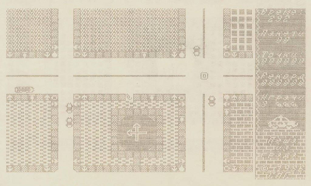 A printout of a screenshot of a computer game. The printout has been released in the public domain especially for publishing on Wikipedia